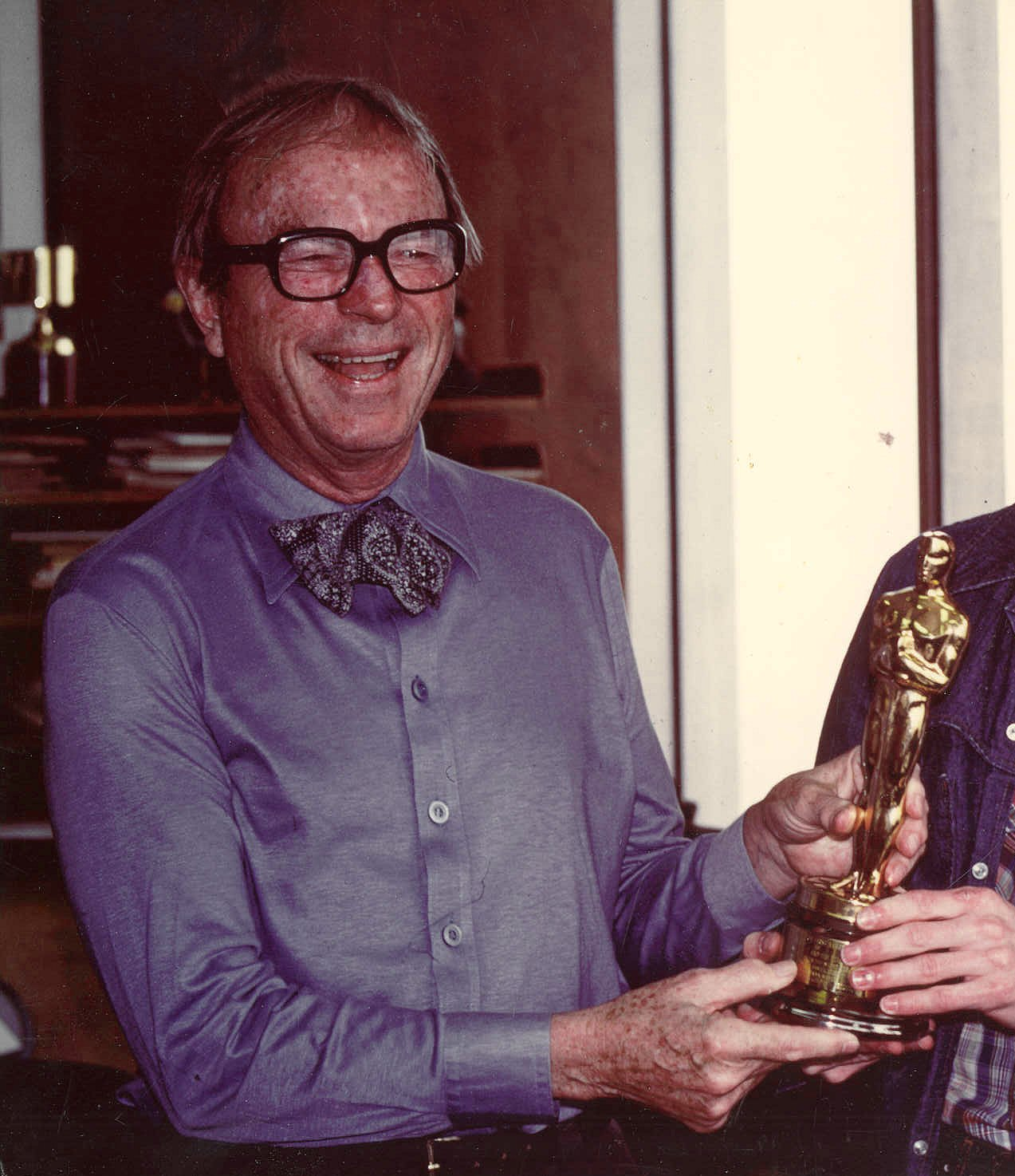 Photo taken in 1976 at Chuck Jones' office